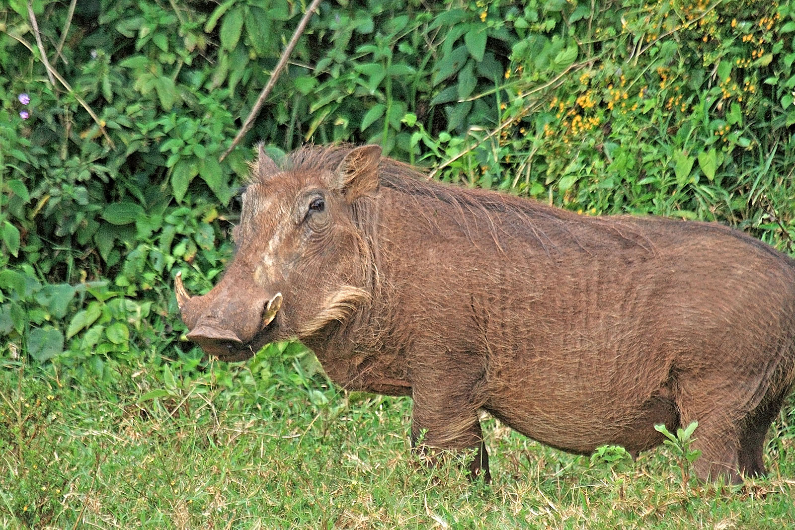 Warthog in Aberdare National Park, Kenya